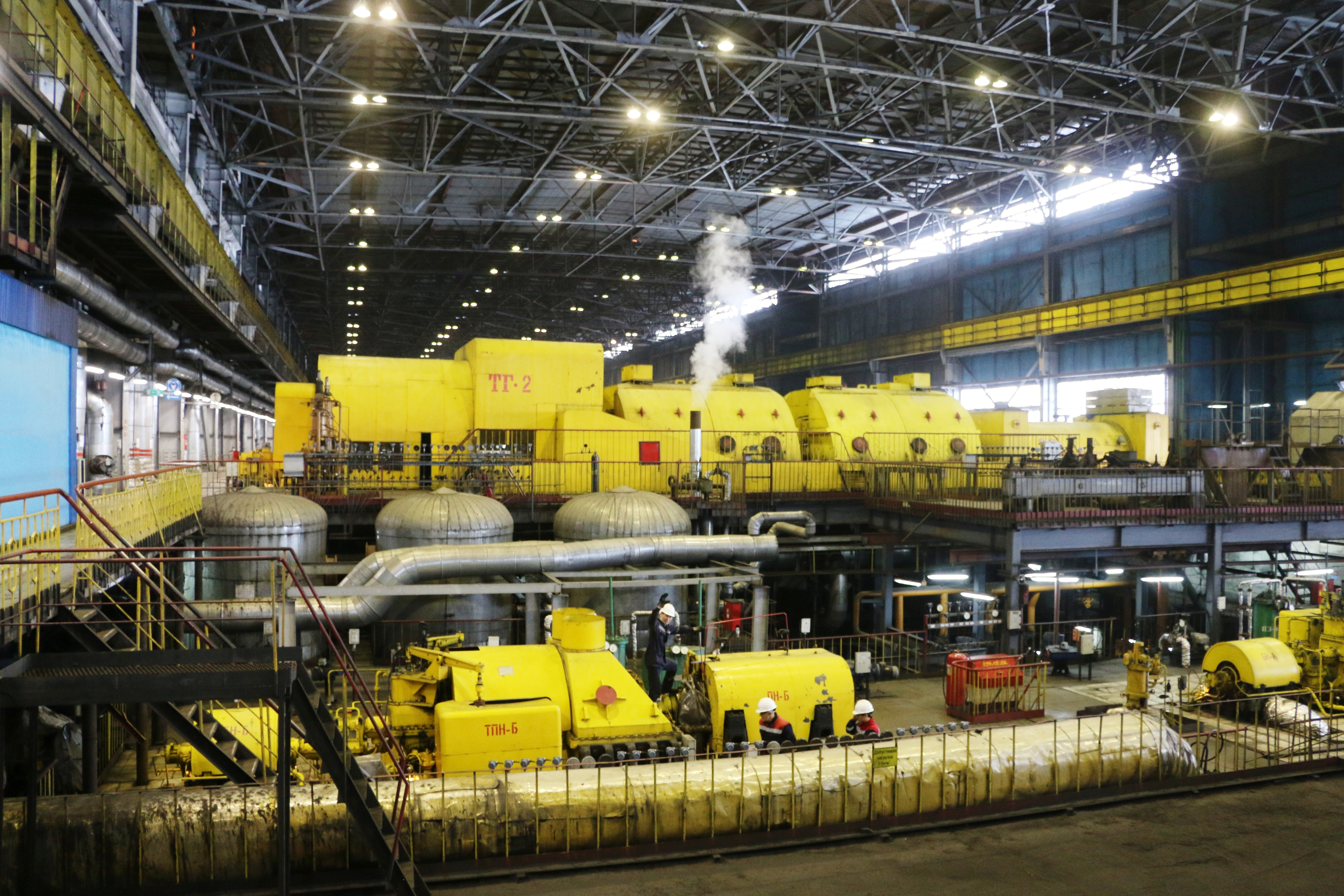 Ekibastuz GRES-1